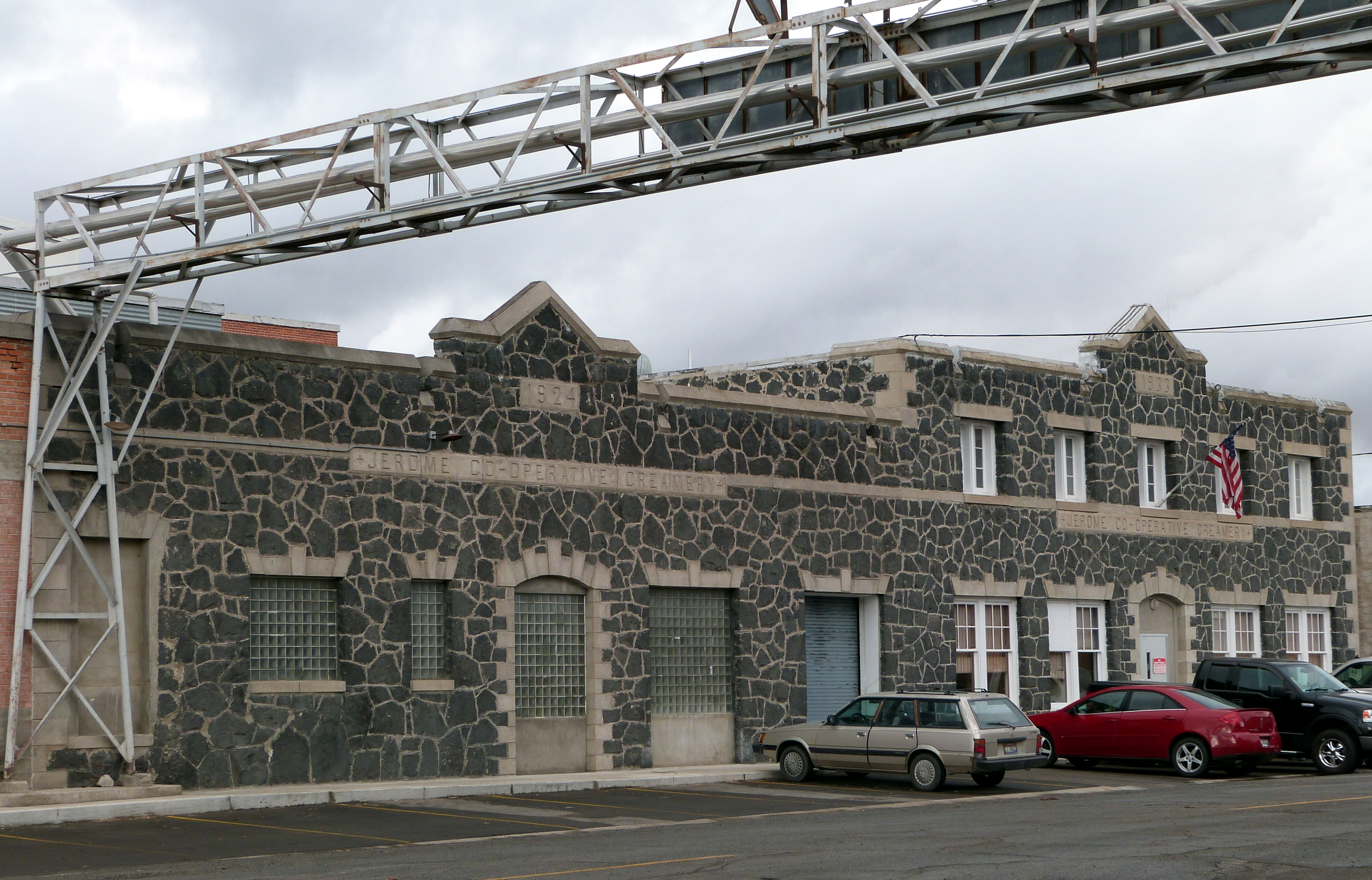 The historic Jerome Cooperative Creamery (built 1915), located at 313 South Birch Street in Jerome, Idaho, United States, is listed on the US National Register of Historic Places.